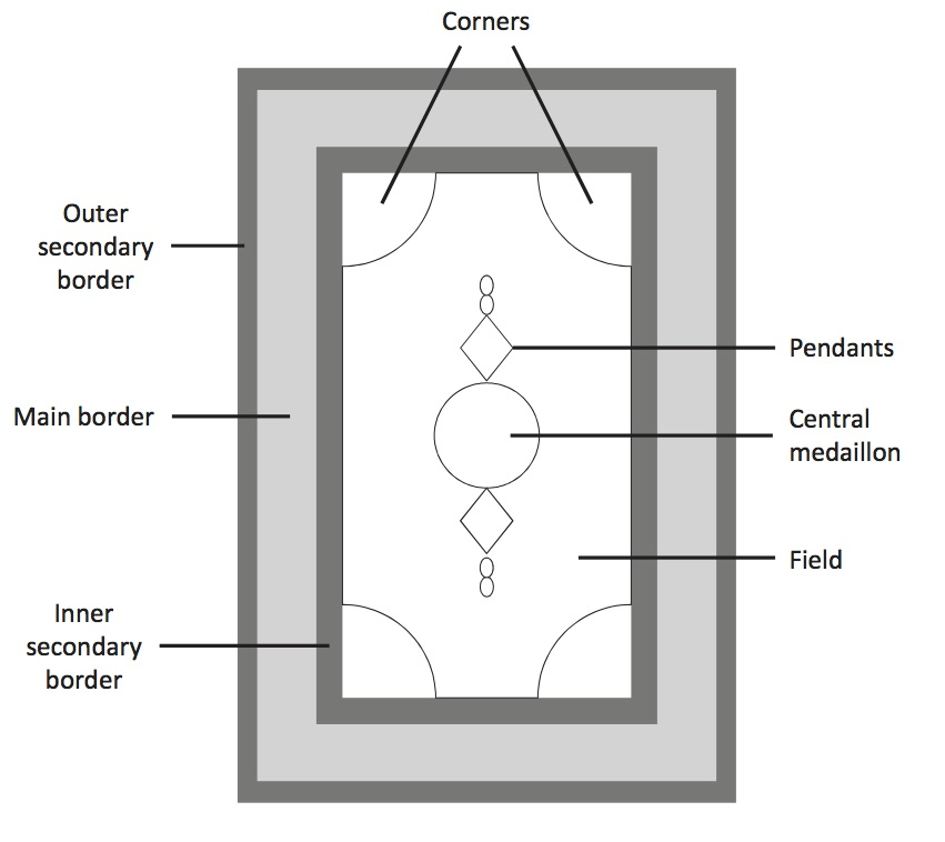 Basic elements of Oriental carpet design